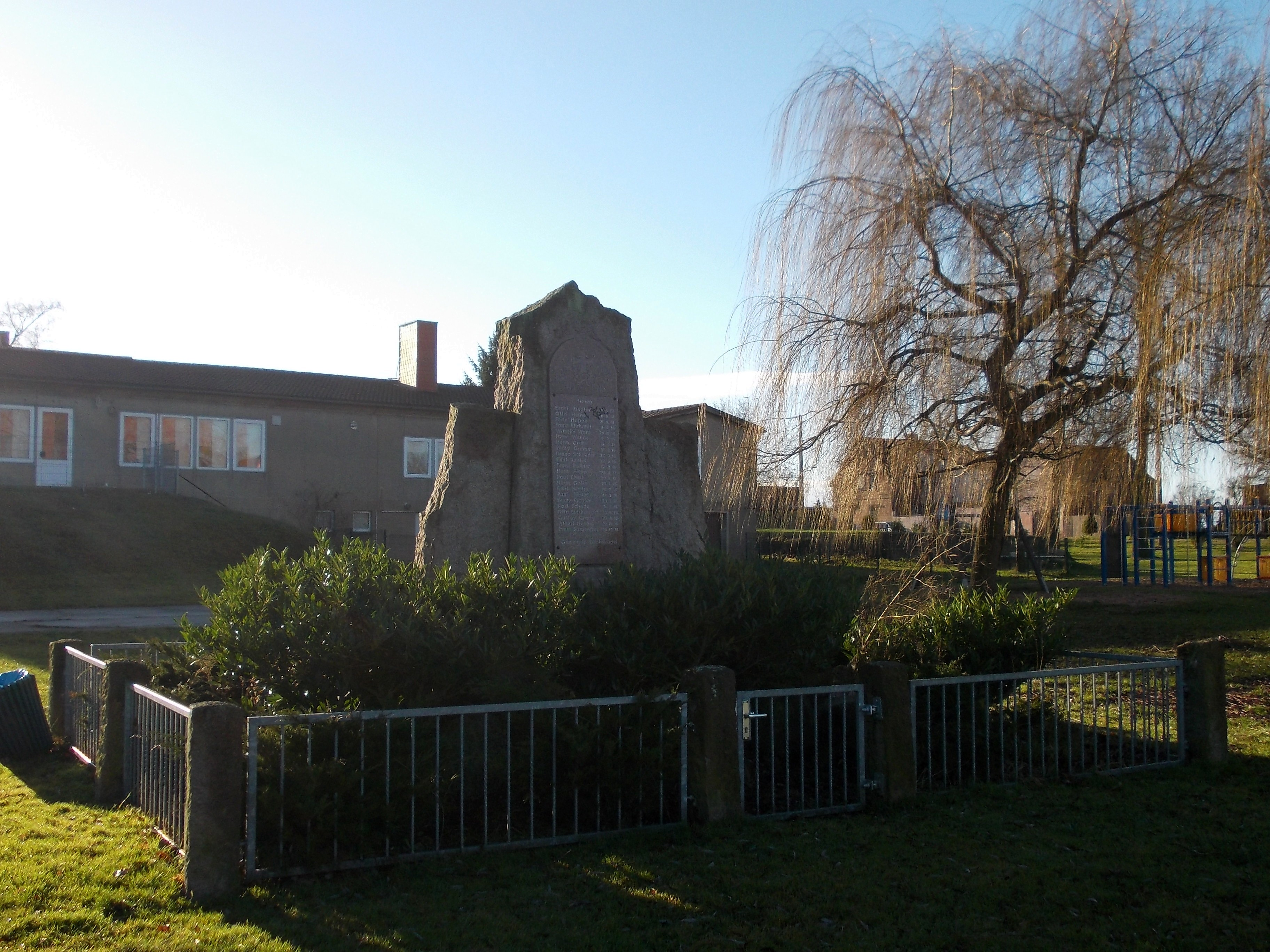 World War I memorial on Grosskugel (Kabelsketal, district: Saalekreis, Saxony-Anhalt)